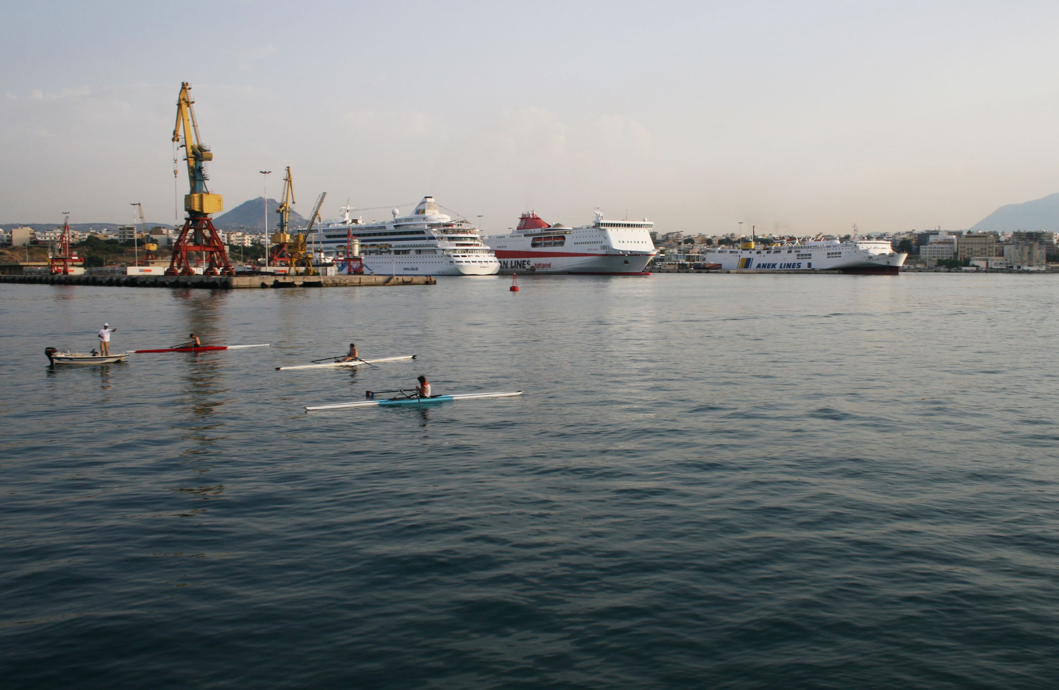 Heraklion is Crete's major sea port and is the fourth largest city in Greece. Ships arrive and leave this harbour to many of the surrounding Greek islands as well as to the Middle East and North Africa.